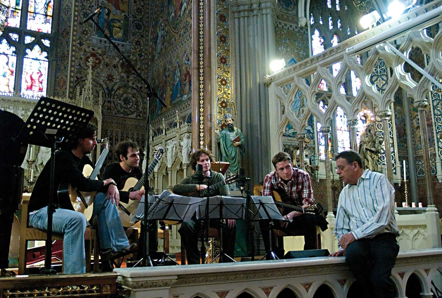 The Dublin Guitar Quartet in rehearsal with composer Philip Glass